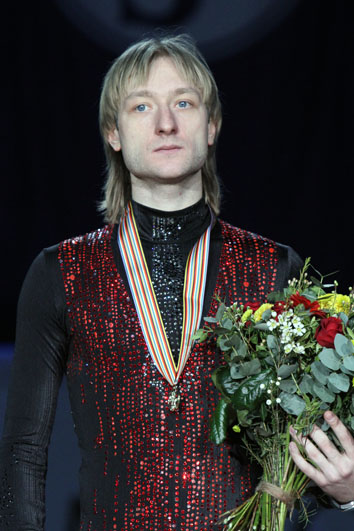 Evgeni Plushenko during the men's medals ceremony at the 2010 European Championships.